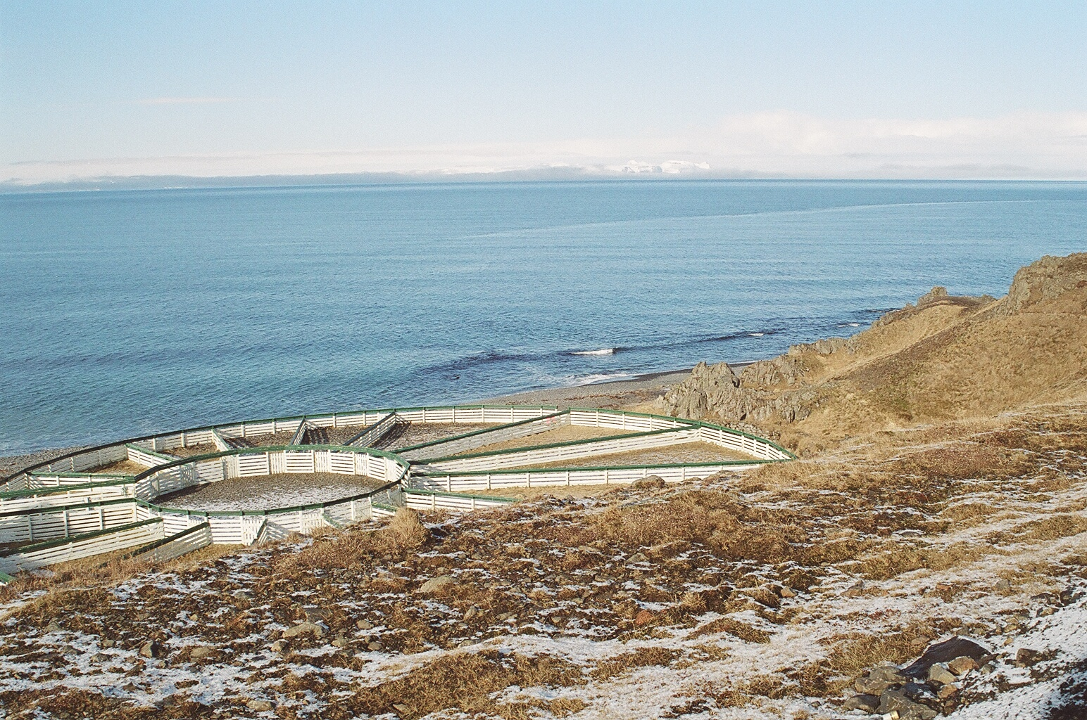 Hvammstangi, Iceland